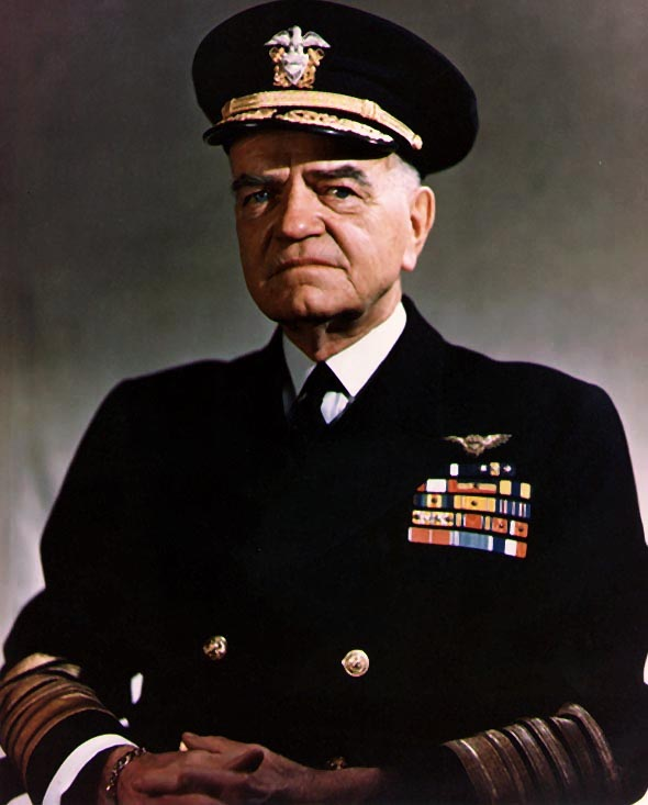 Official U.S. Navy portrait photograph of Fleet Admiral William F. Halsey, Jr. (1882-1959).